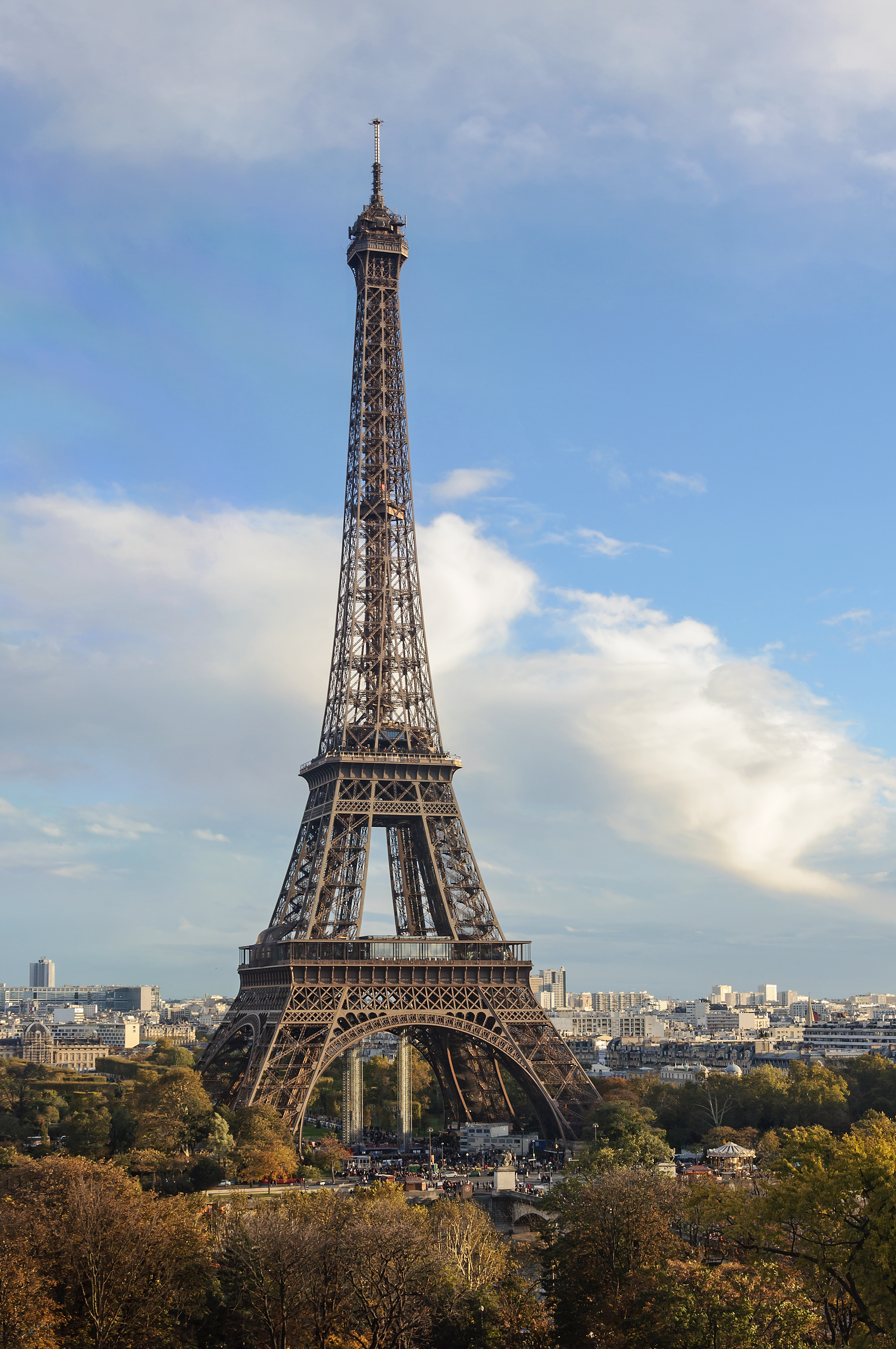 The Eiffel Tower as seen from the Cité de l'Architecture et du Patrimoine in Palais de Chaillot, Paris, France